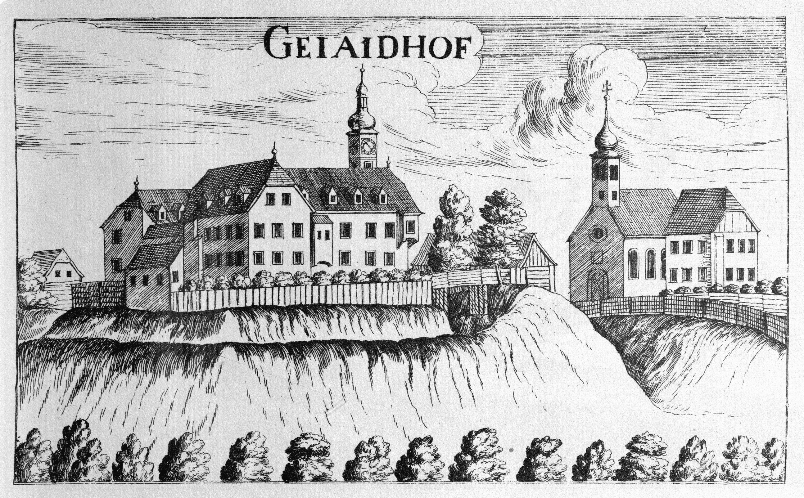 Schloss Gjaidhof in Dobl, Styria, Austria